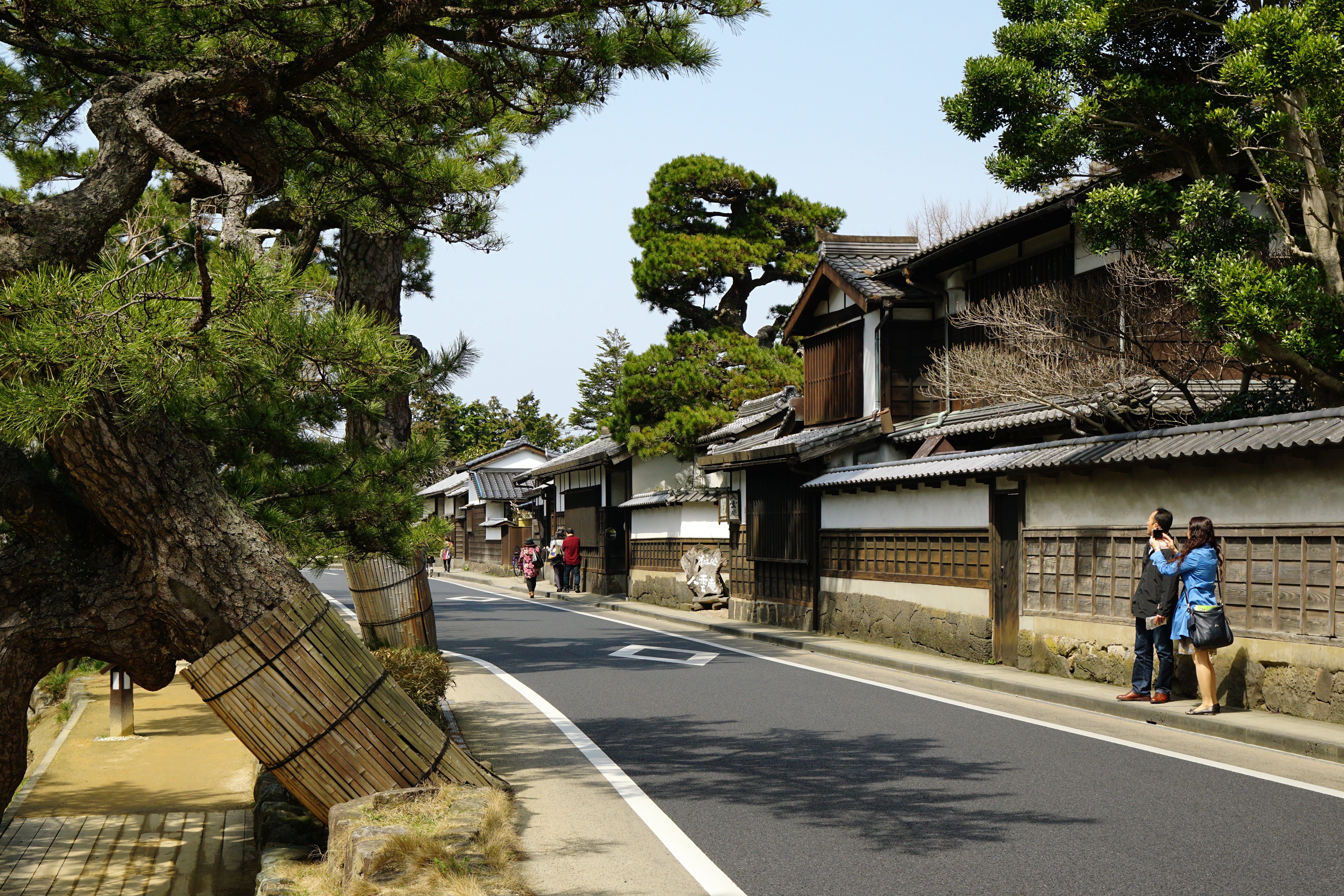 At Shiominawate, Matsue, Shimane prefecture, Japan